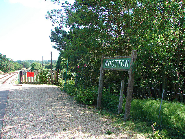 Wootton Station Looking in the direction of Havenstreet. The Southern Railway concrete station nameboard was recovered from the original Wootton Station.